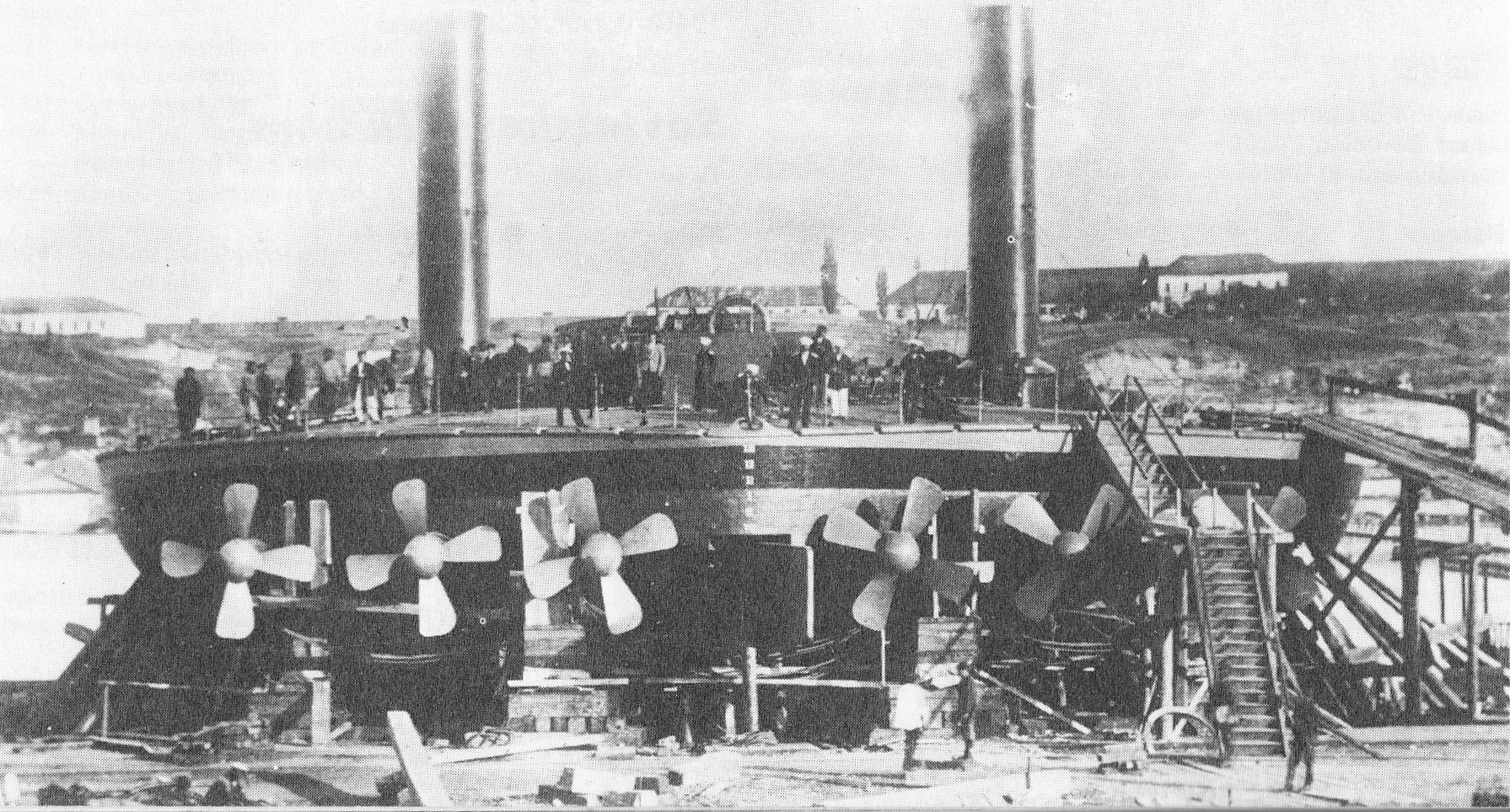 Russian circular coastal defence ship Novgorod. Notice the six screws.